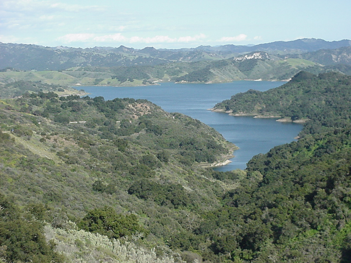 Lake Casitas Reservoir in Ventura County, California, seen looking east from California highway 150.